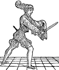 Dagger and Cloak, Guard. Original illustration is from Achille Marozzo's 16th century manual of arms, Opera Nova. Edited and used in Alfred Hutton's 19th century book of swordplay.